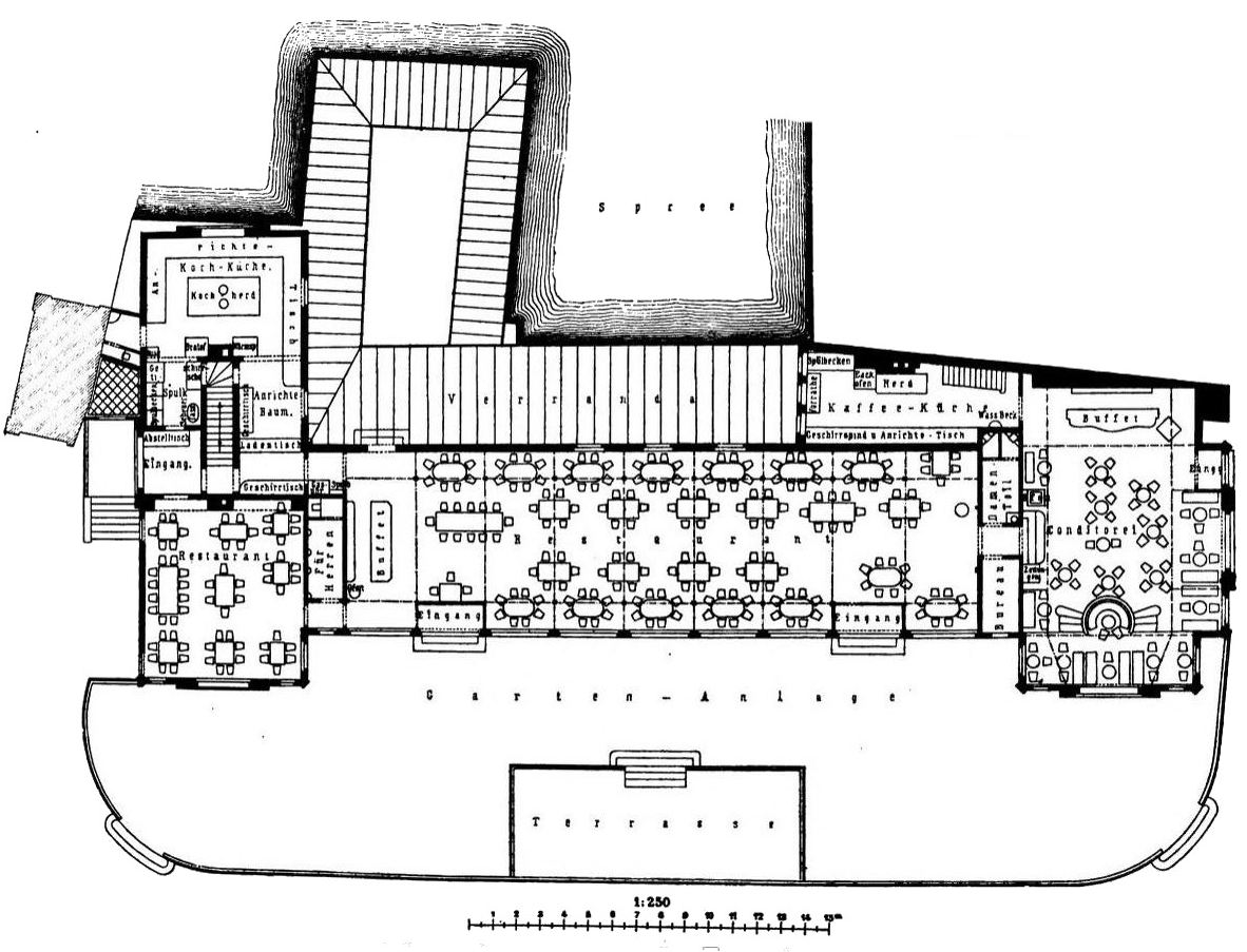 Layout of the Café Helms in Berlin, built 1882-1883 on Spreeinsel at the streets Schlossfreiheit and An der Stechbahn; the building was demolished in 1893